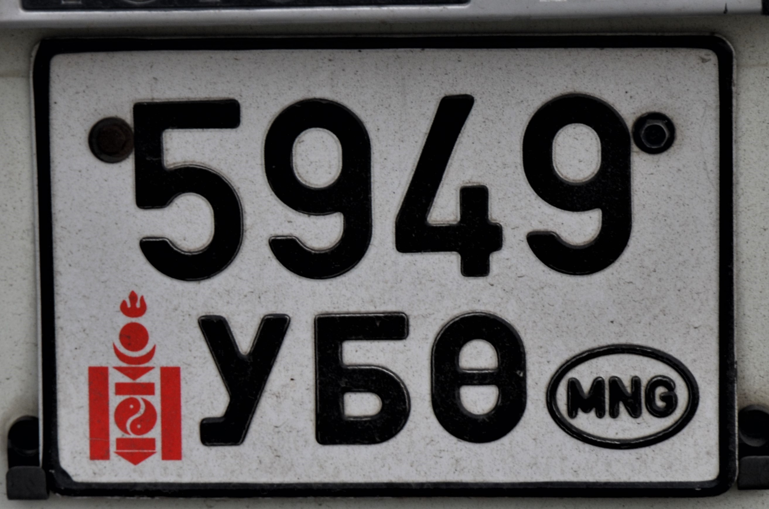 License plate of Mongolia in Ulan Bator on a Toyota 4WD